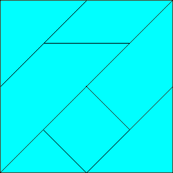 Japanese Tangram (Seishonagon-chienoita)